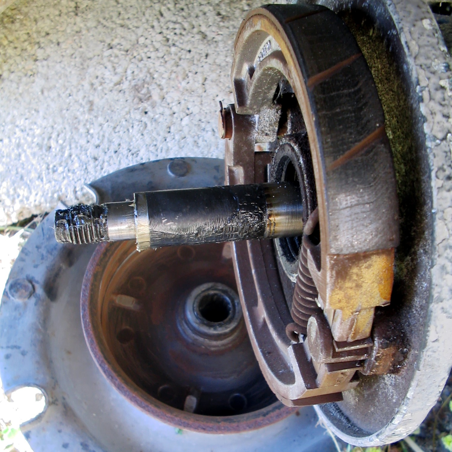 Brake shoes fitted with carvings